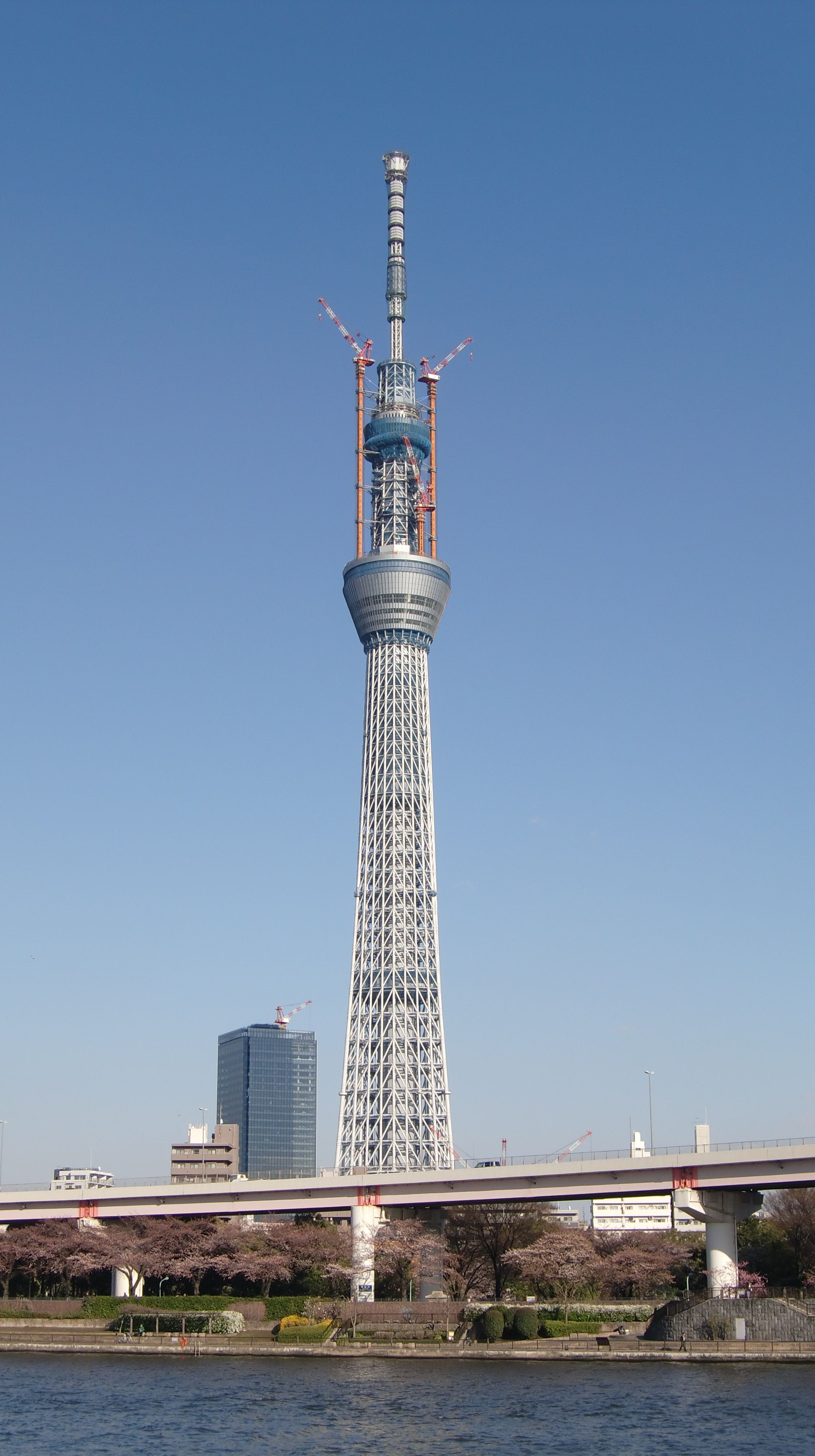 Tokyo Sky Tree from Hanakawado